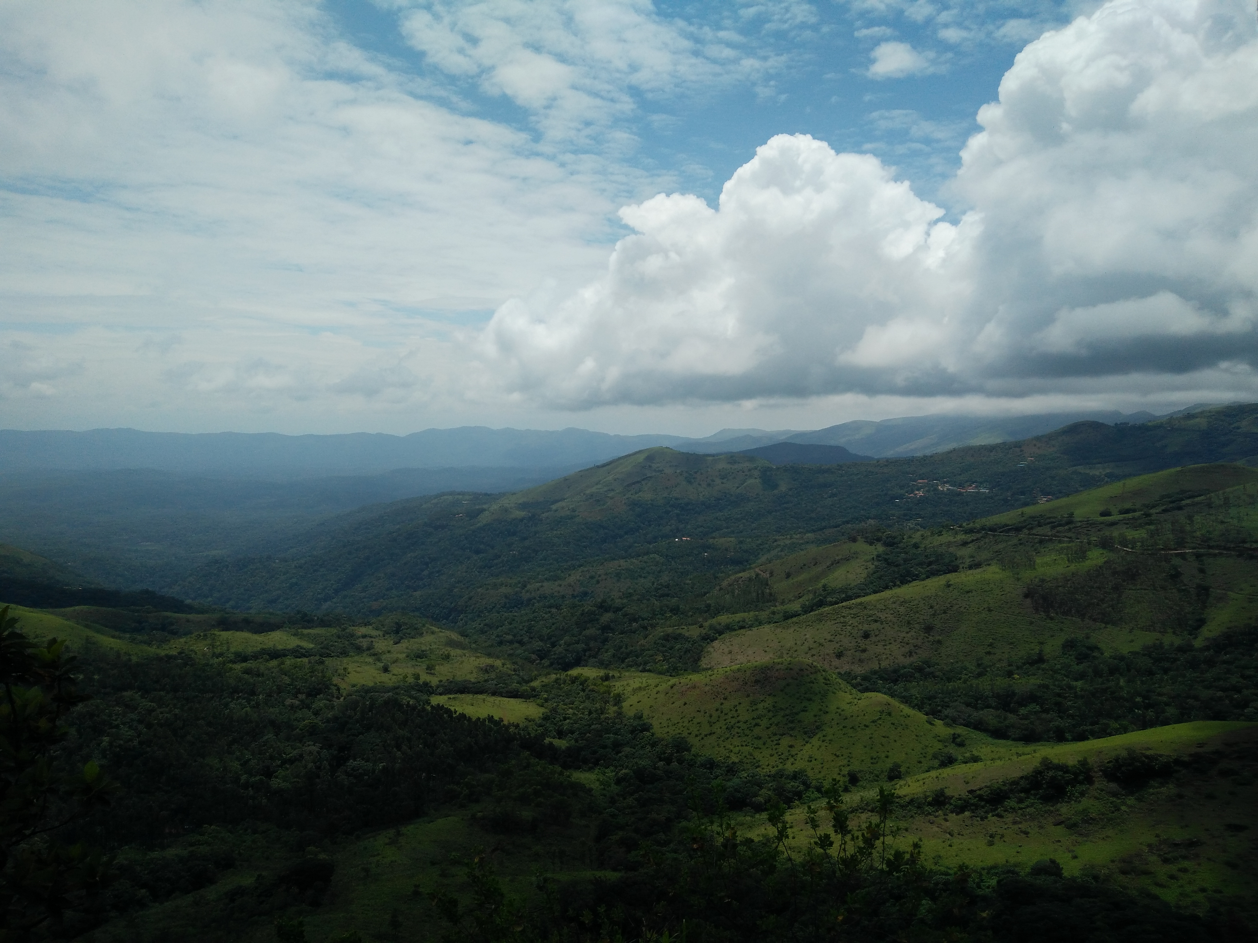 Picture taken from one of the best view point of Chikmagalur, Nature at its Bold colors.. Blue Sky touching the Green Earth